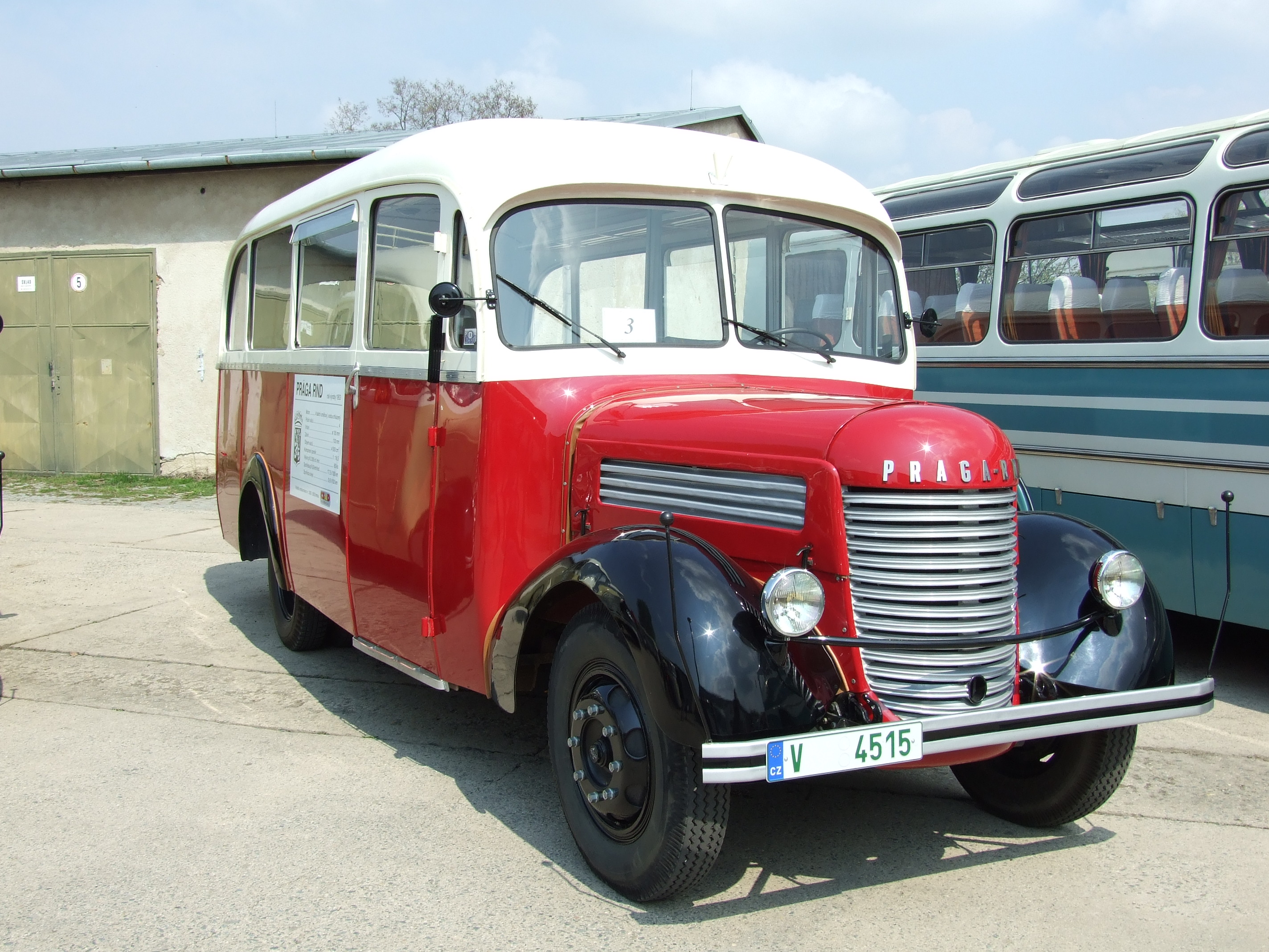 Historic czechoslovak bus Praga RNDhelp